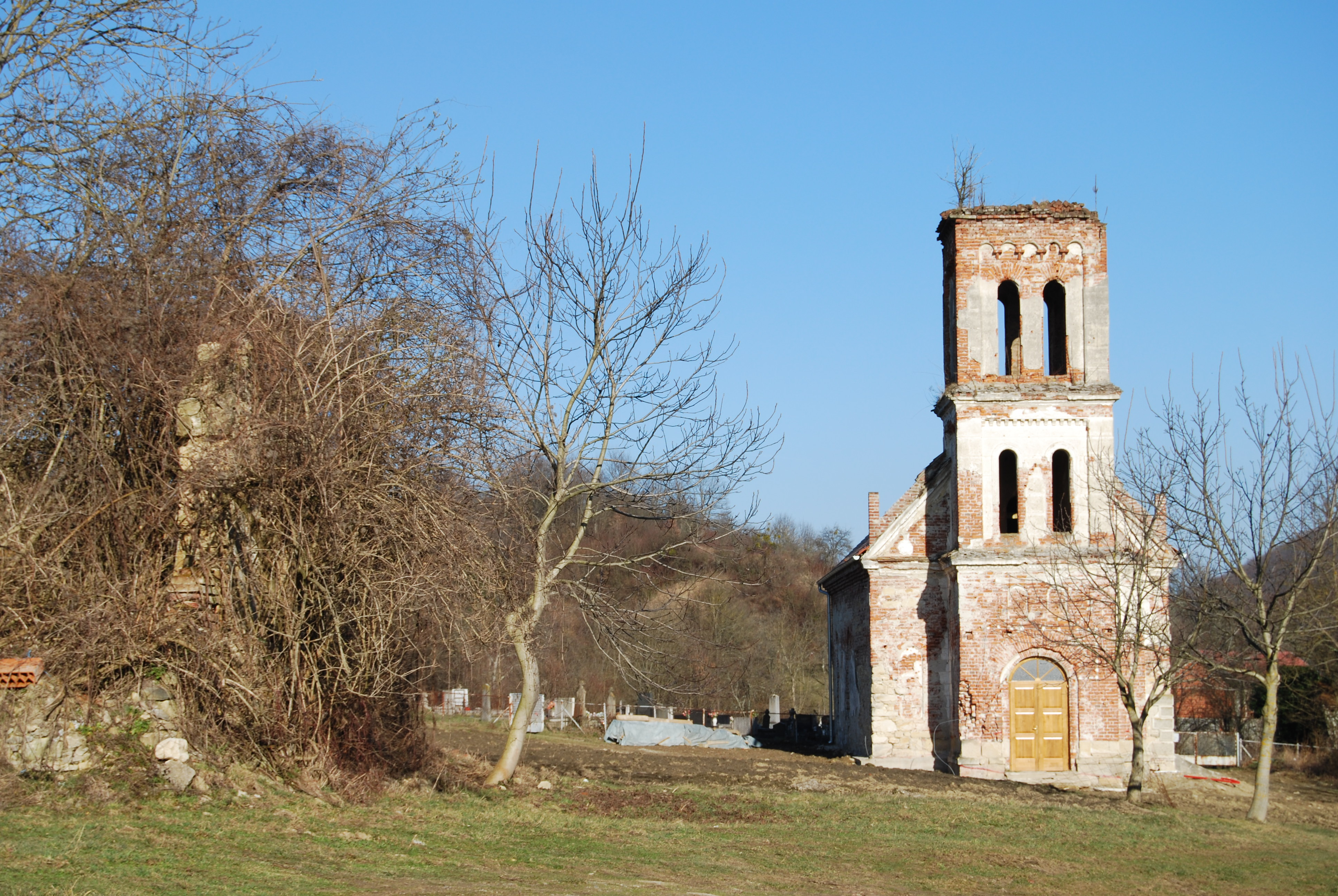 Destroyed church of St. George in Kusonje village, Croatia - Google Maps - Google Earth